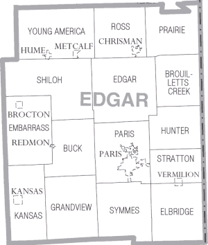 Edgar County Illinois